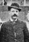 Major League Baseball owner John B. Day